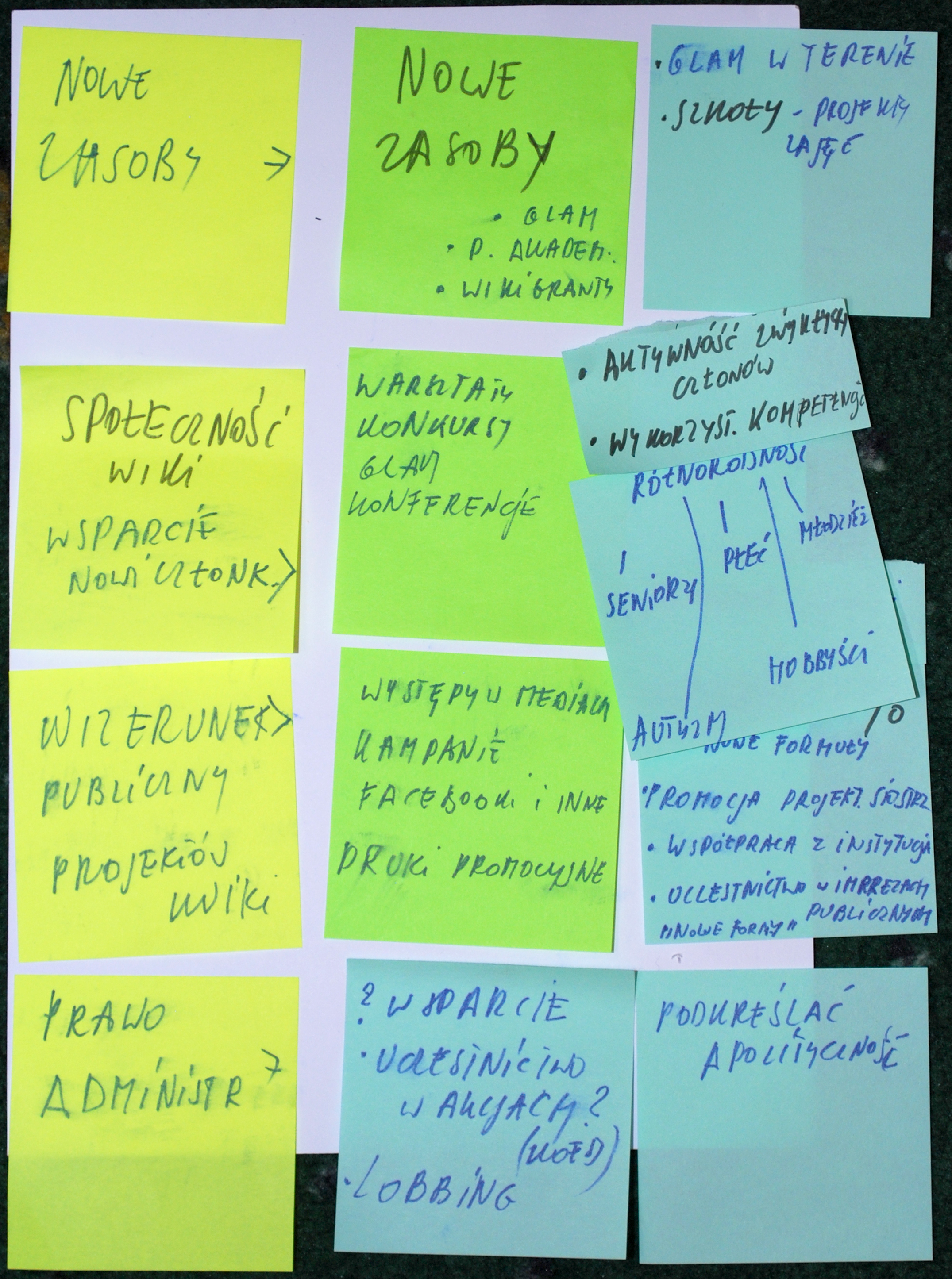 Strategic session during Wikimedia Polska Winter Retreat.